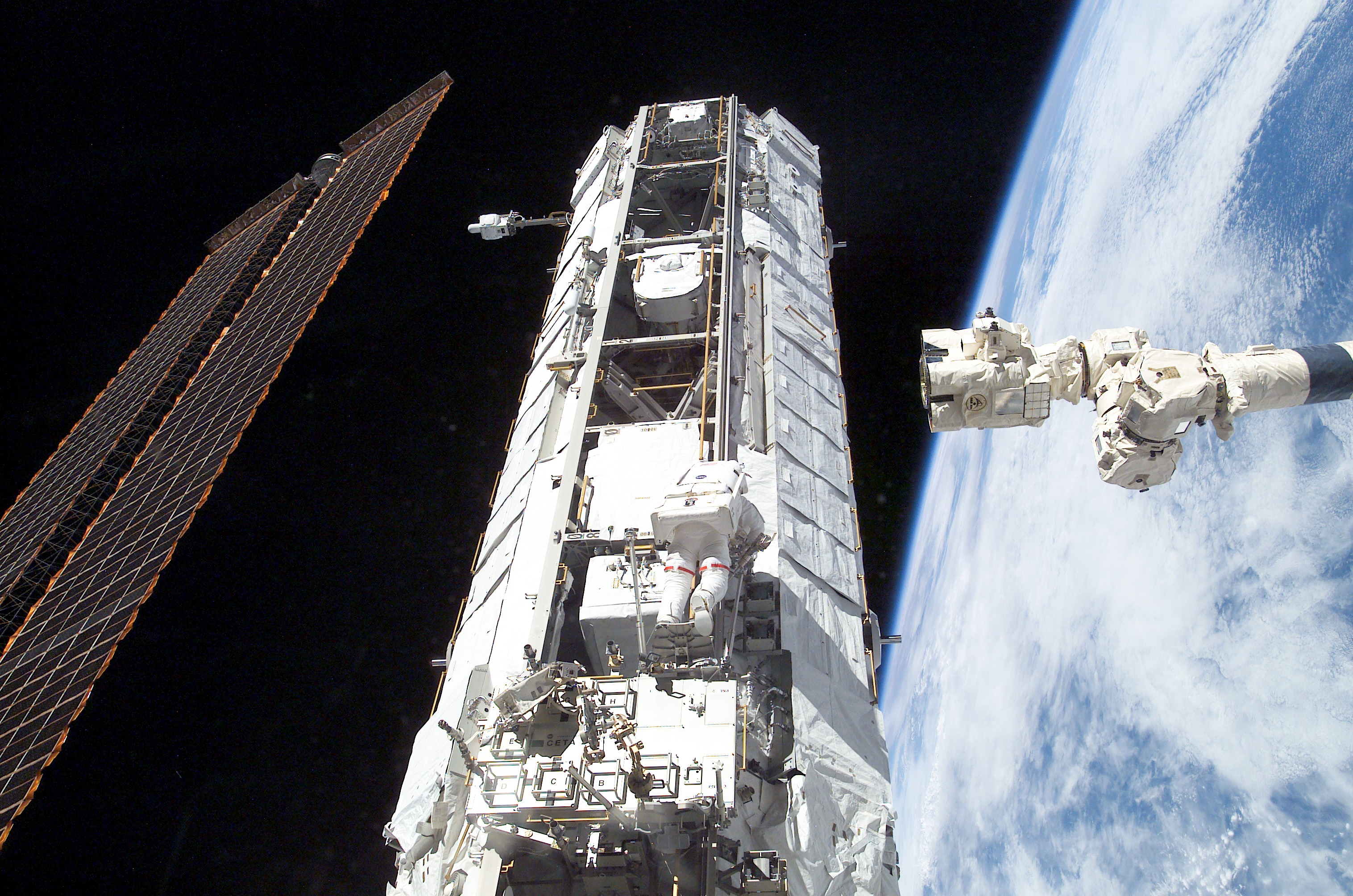 Astronaut Michael E. Lopez-Alegria, STS-113 mission specialist, works on the newly installed Port One (P1) truss on the International Space Station (ISS) during a session of extravehicular activity (EVA). The end effector of the Canadarm2 / Space Station Remote Manipulator System (SSRMS) and Earth’s horizon are visible in right frame.